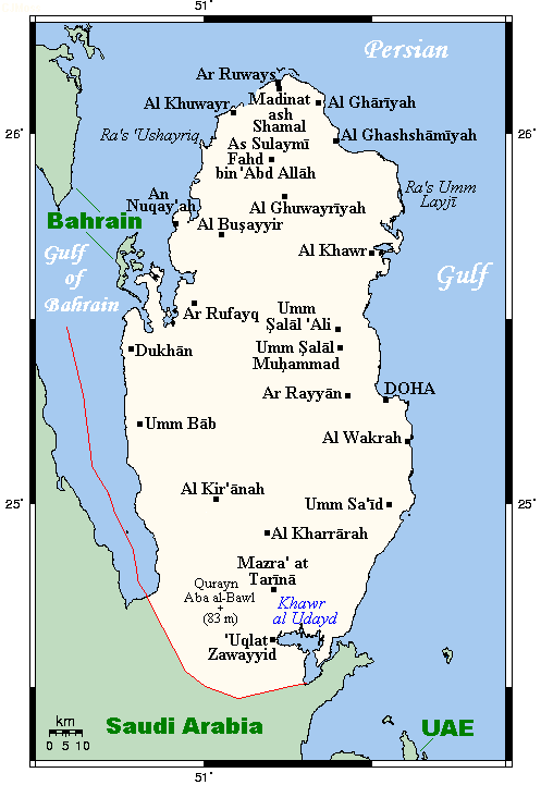 A map showing Qatar's cities and main towns, along with nearby areas. This map's source is here, with the uploader's modifications, and the GMT homepage says that the tools are released under the GNU General Public License.